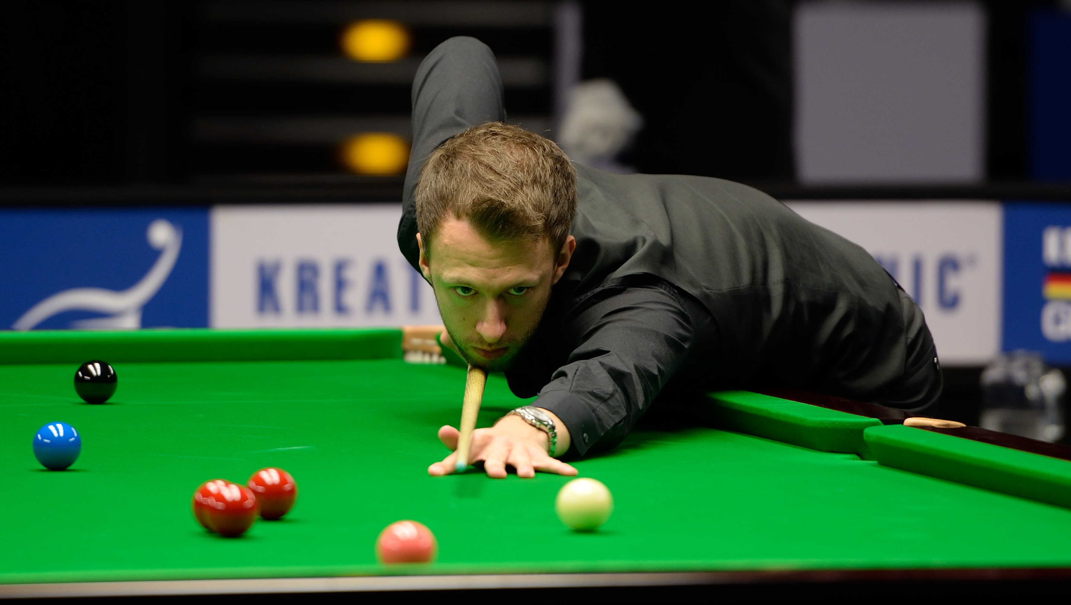 Picture taken in Berlin during the Snooker German Masters in 2015. Judd Trump.